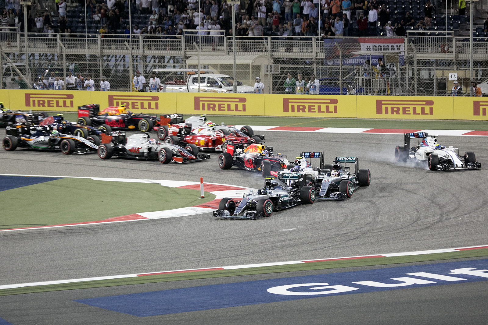 Start at the 2016 Bahrain Grand Prix